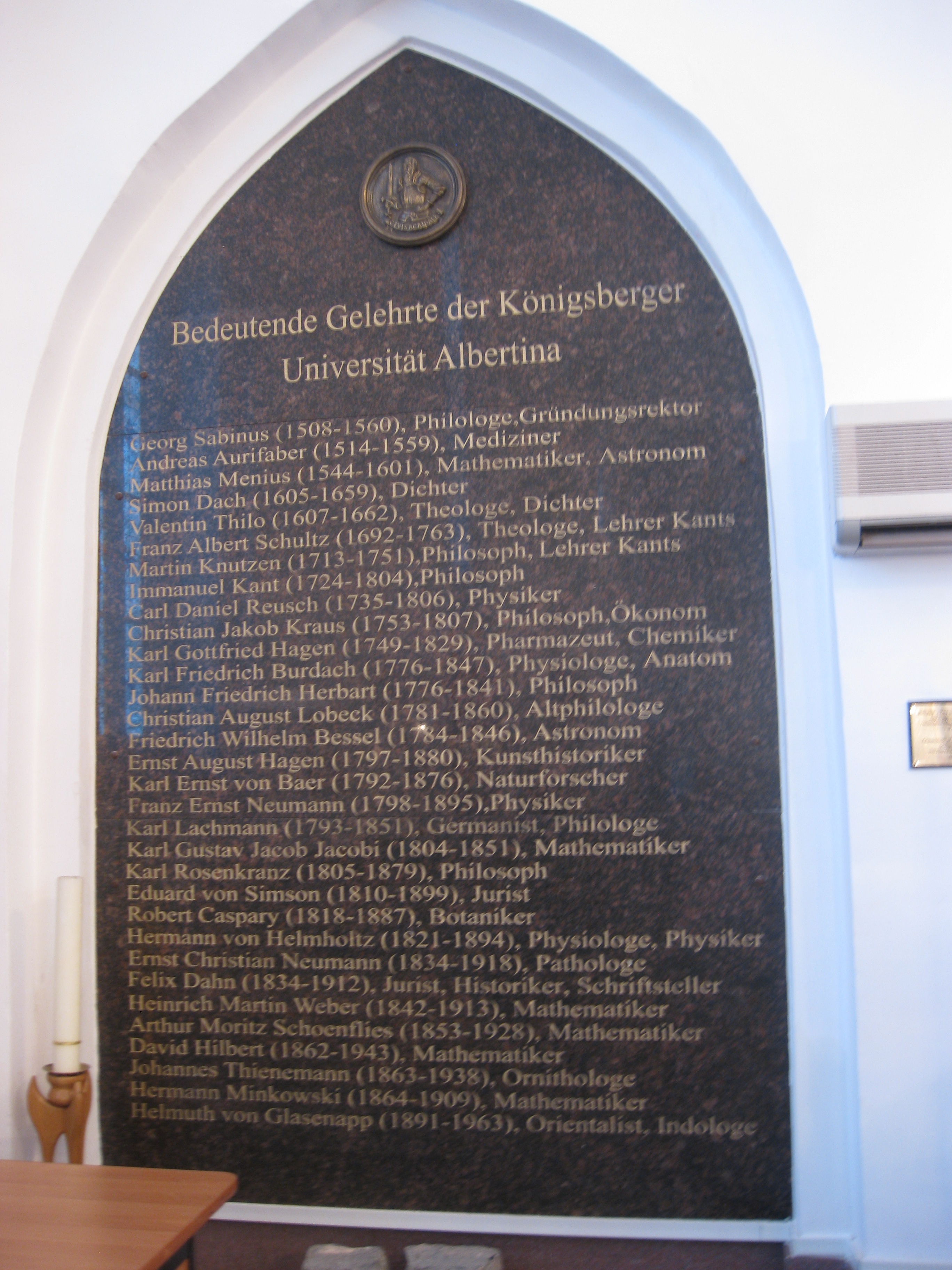 commemorative plaque in the Königsberger Dom in honor to the scientists of the Albertina Königsberg